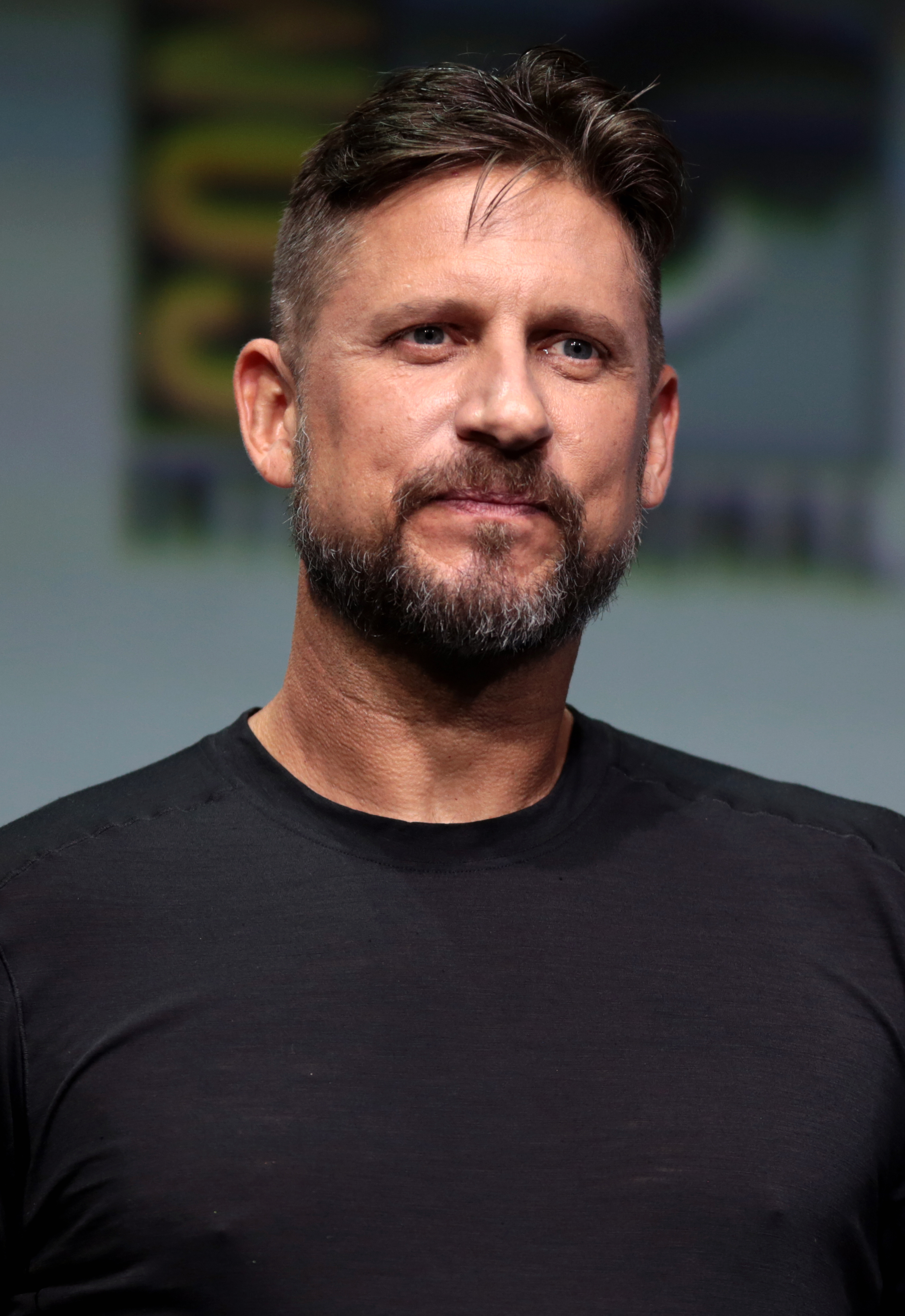 David Ayer speaking at the 2017 San Diego Comic-Con International in San Diego, California.